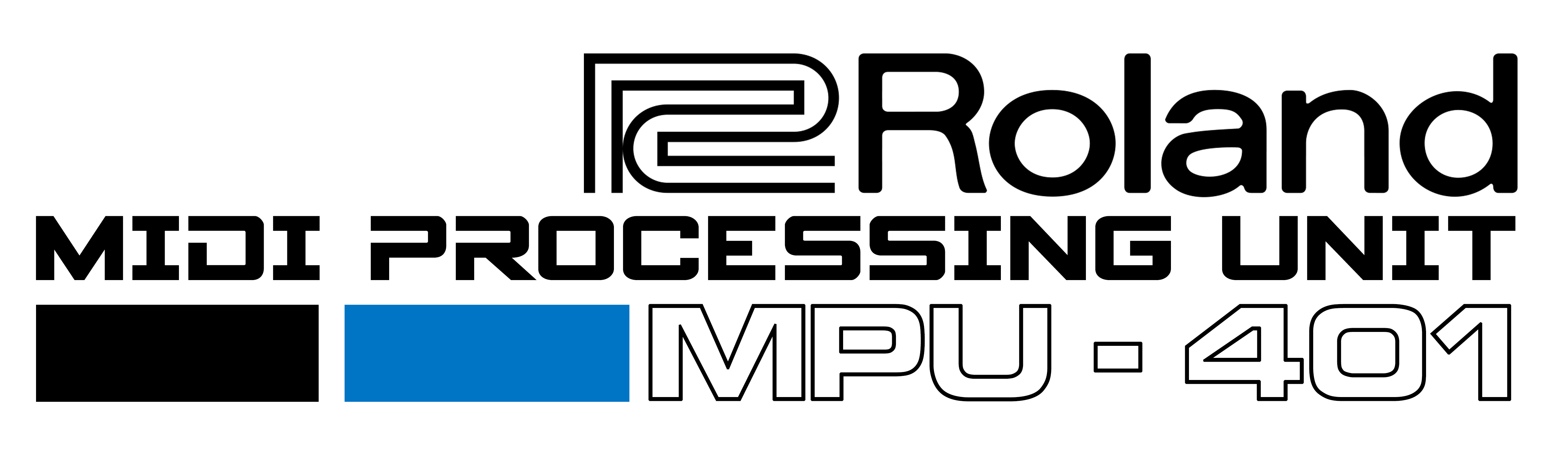 Logo Remake of the Roland MPU device